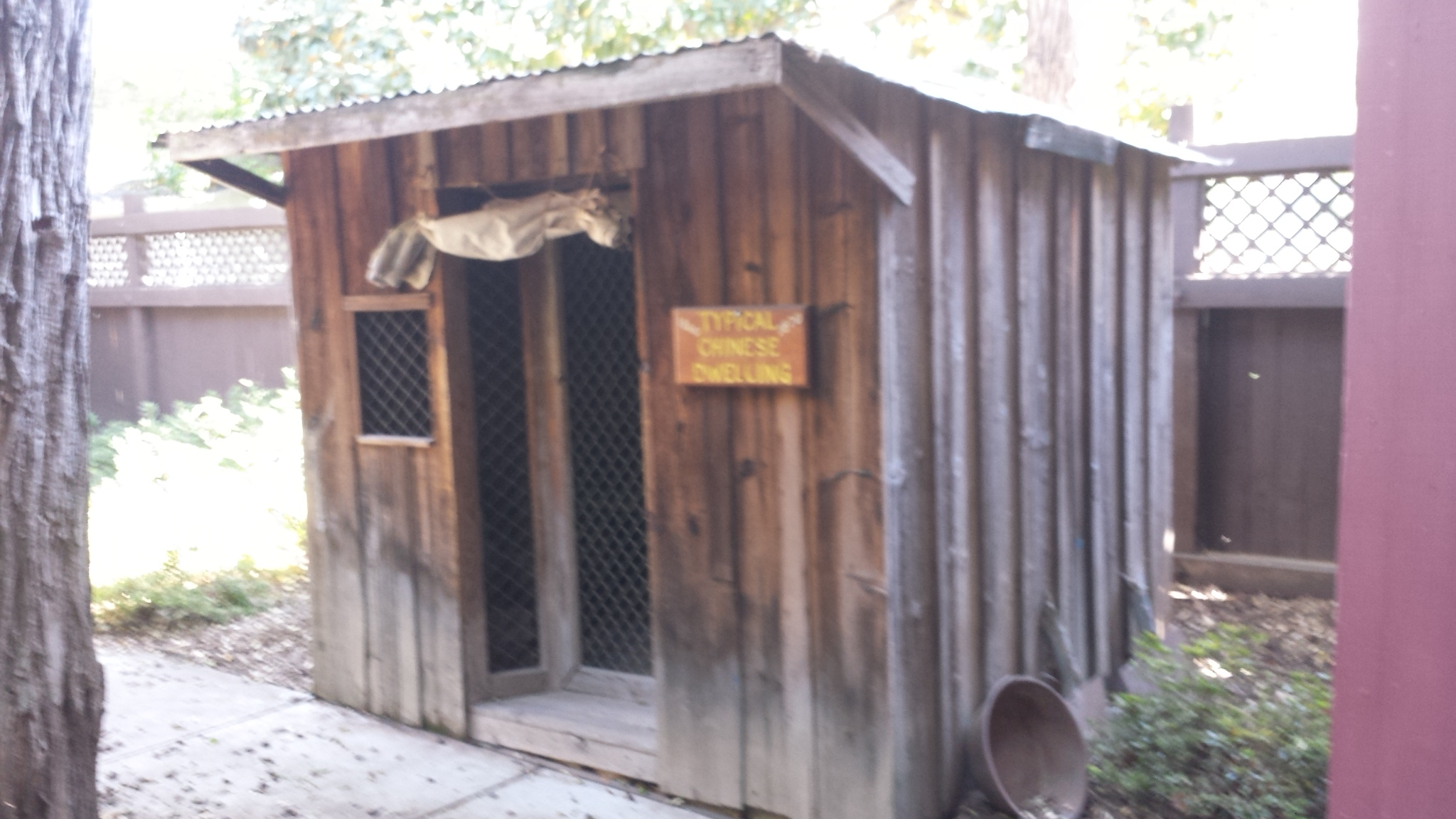 William Collins, photo